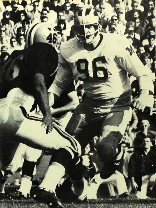 Photograph of Tom Mack